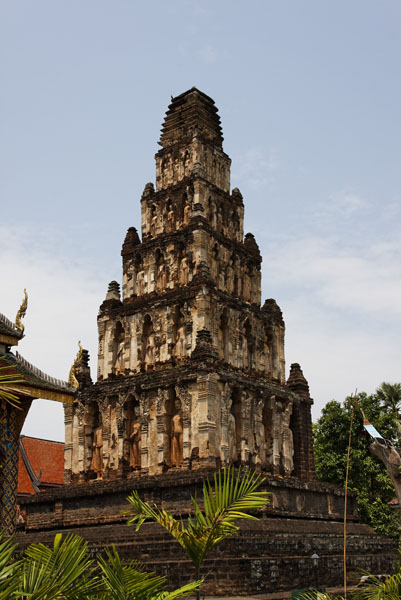 Wat Kukut (Wat Chama devi), Lamphun, Thailand - Example of Dvaravati art